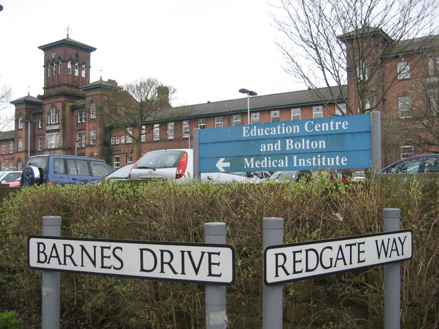 Royal Bolton Hospital The view from the junction of Barnes Drive and Redgate Way shows part of the original buildings which were Townleys Hospital. A large aerial view of the original hospital, including the old railway line, hangs on the wall in the Xray department in A block (due for refurbishment)as at 9th April 2009.